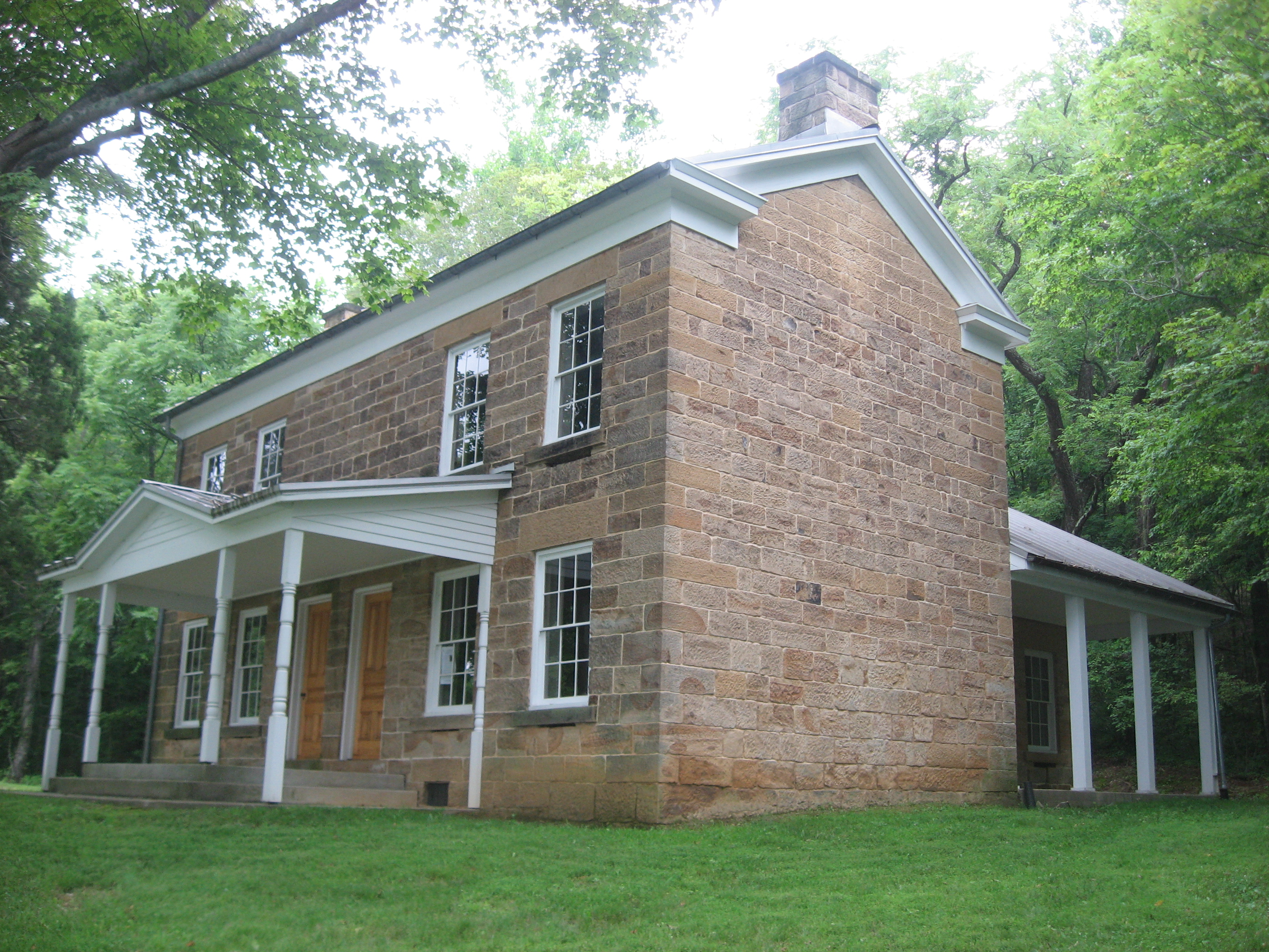 Southern side and front of the Jacob Rickenbaugh House, located southwest of St. Croix in the Hoosier National Forest of Perry County, Indiana, United States. Built in 1874, it is listed on the National Register of Historic Places.